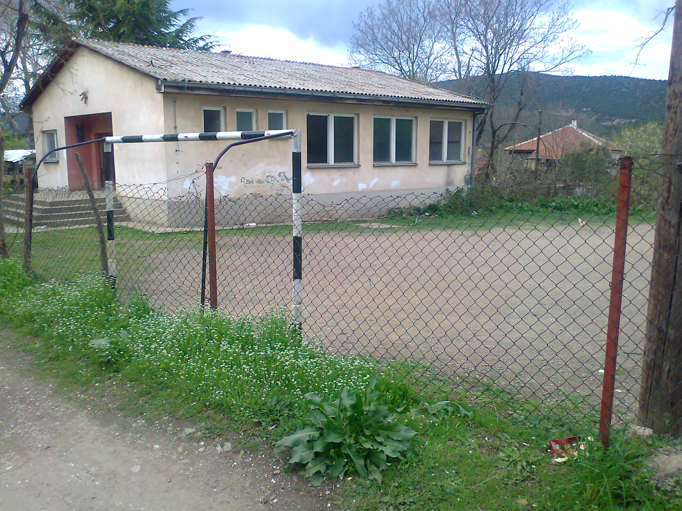 School in Sobri